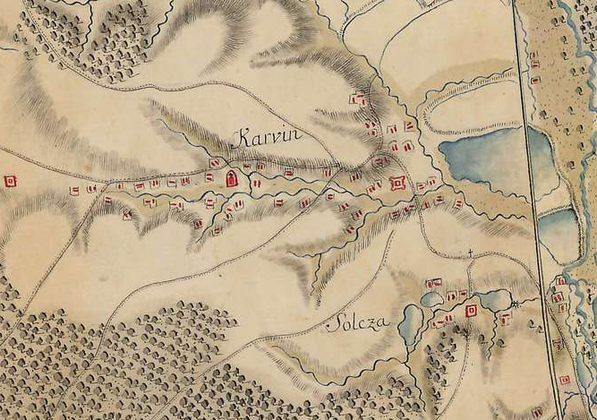 Karvin und Solcza on a map from 1763